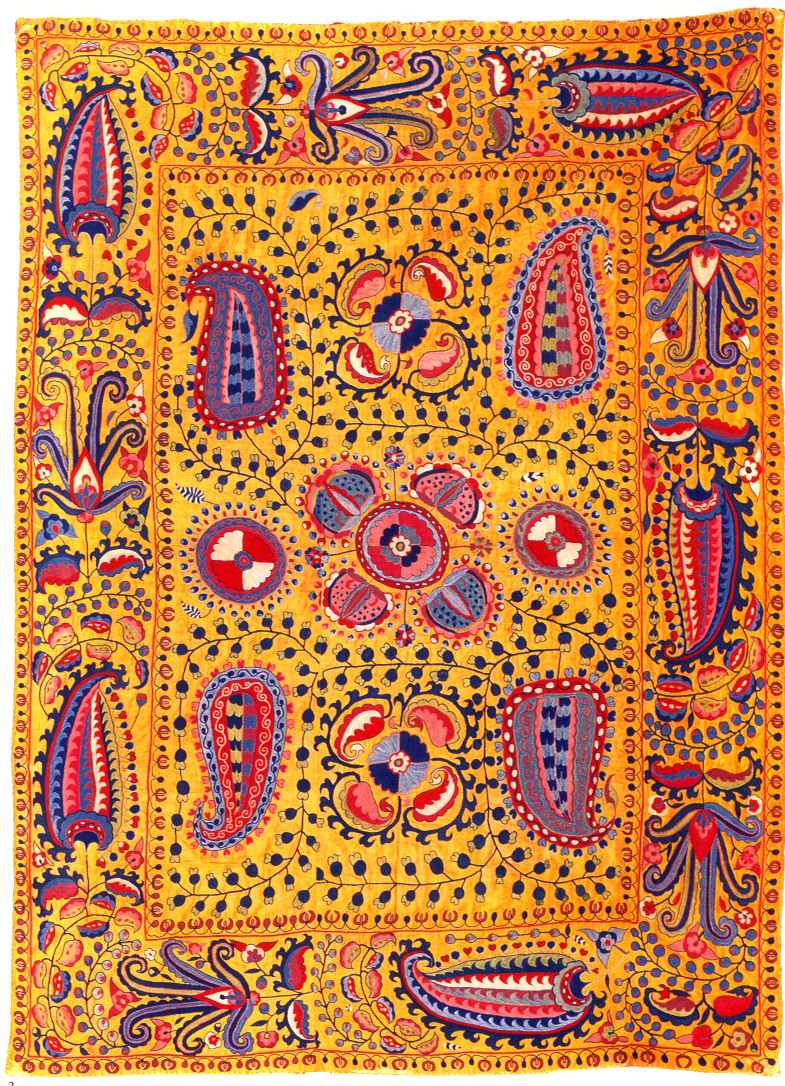 Lakai silk Suzani embroidery, Uzbekistan, auctioned at Sotheby's April 2001